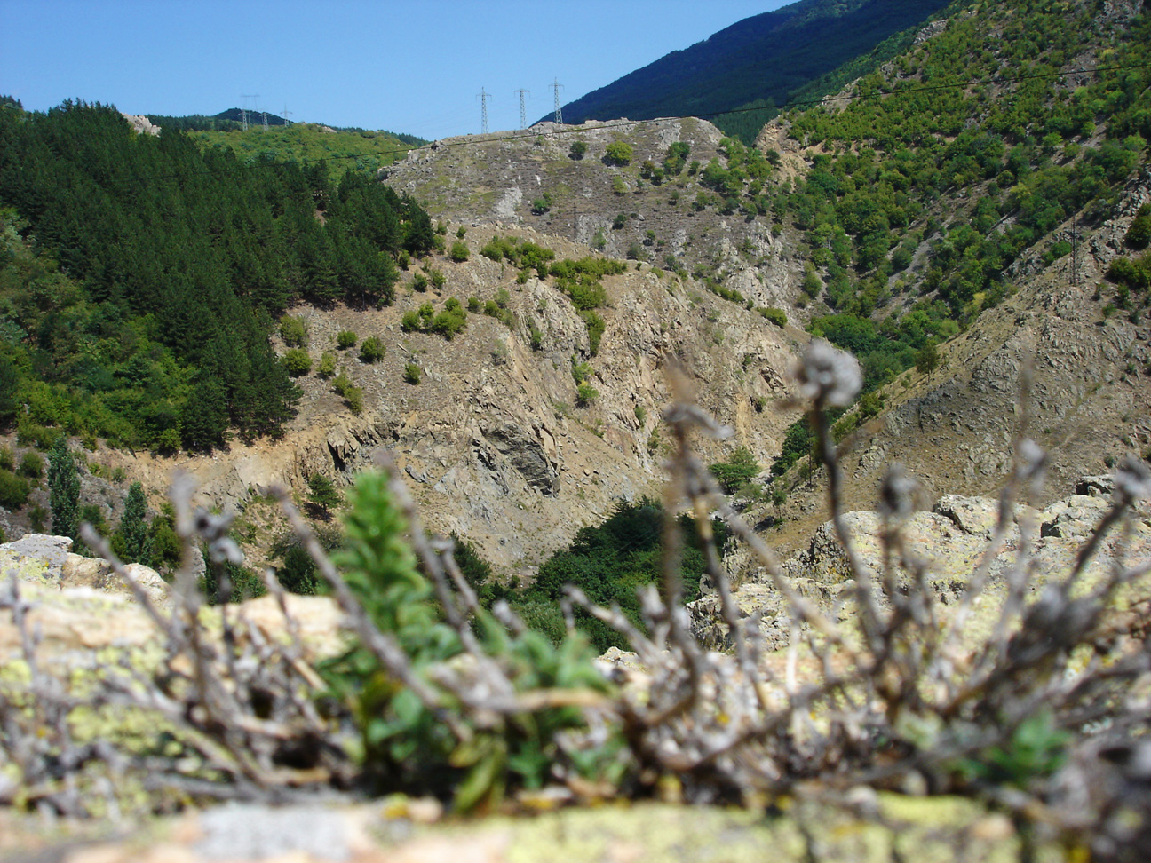 Balkan mountains and river valley near Tvardica, Bulgaria, taken in August 2006